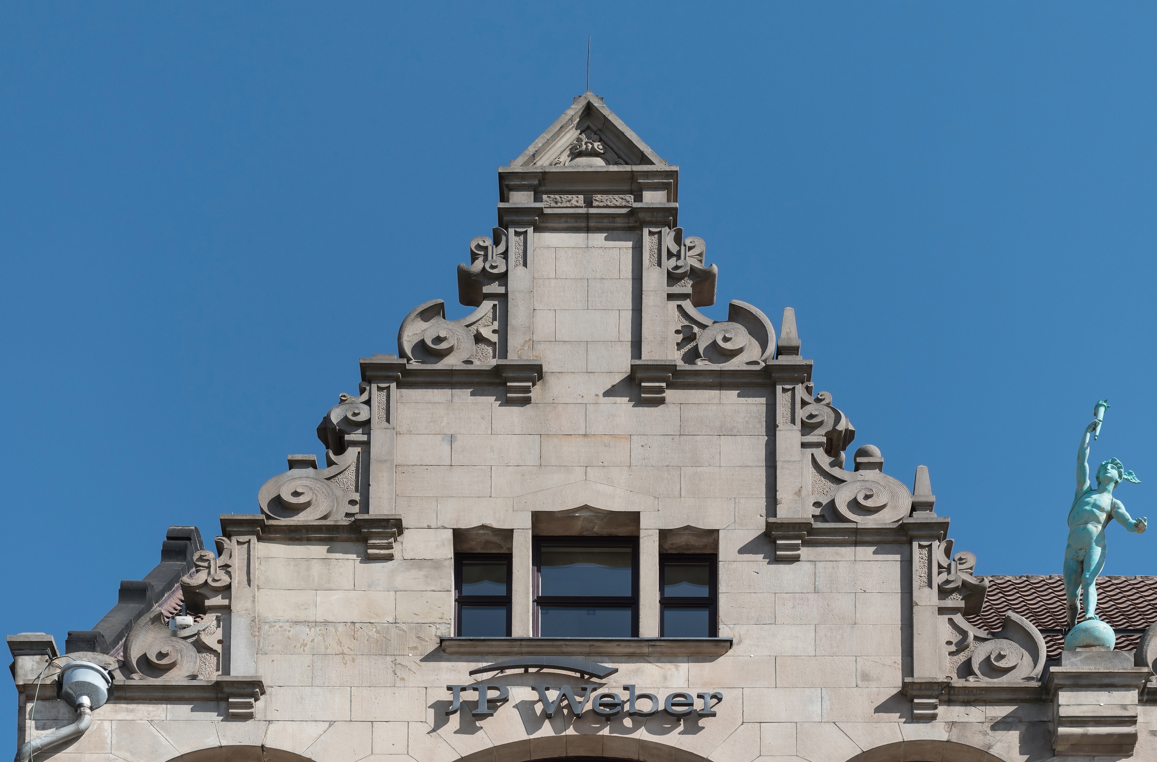 40 Market Square in Wrocław